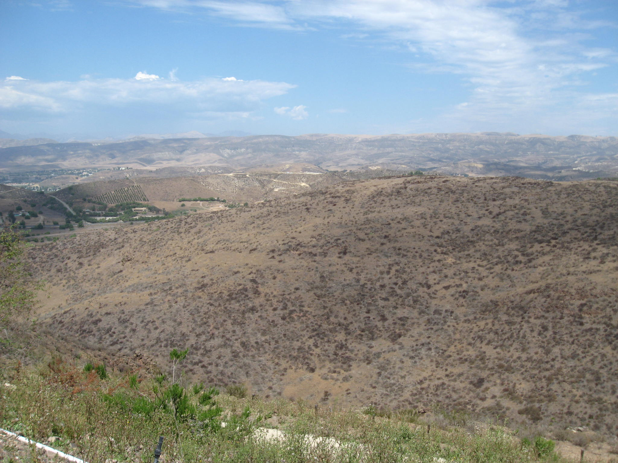 Outside Reagan Library